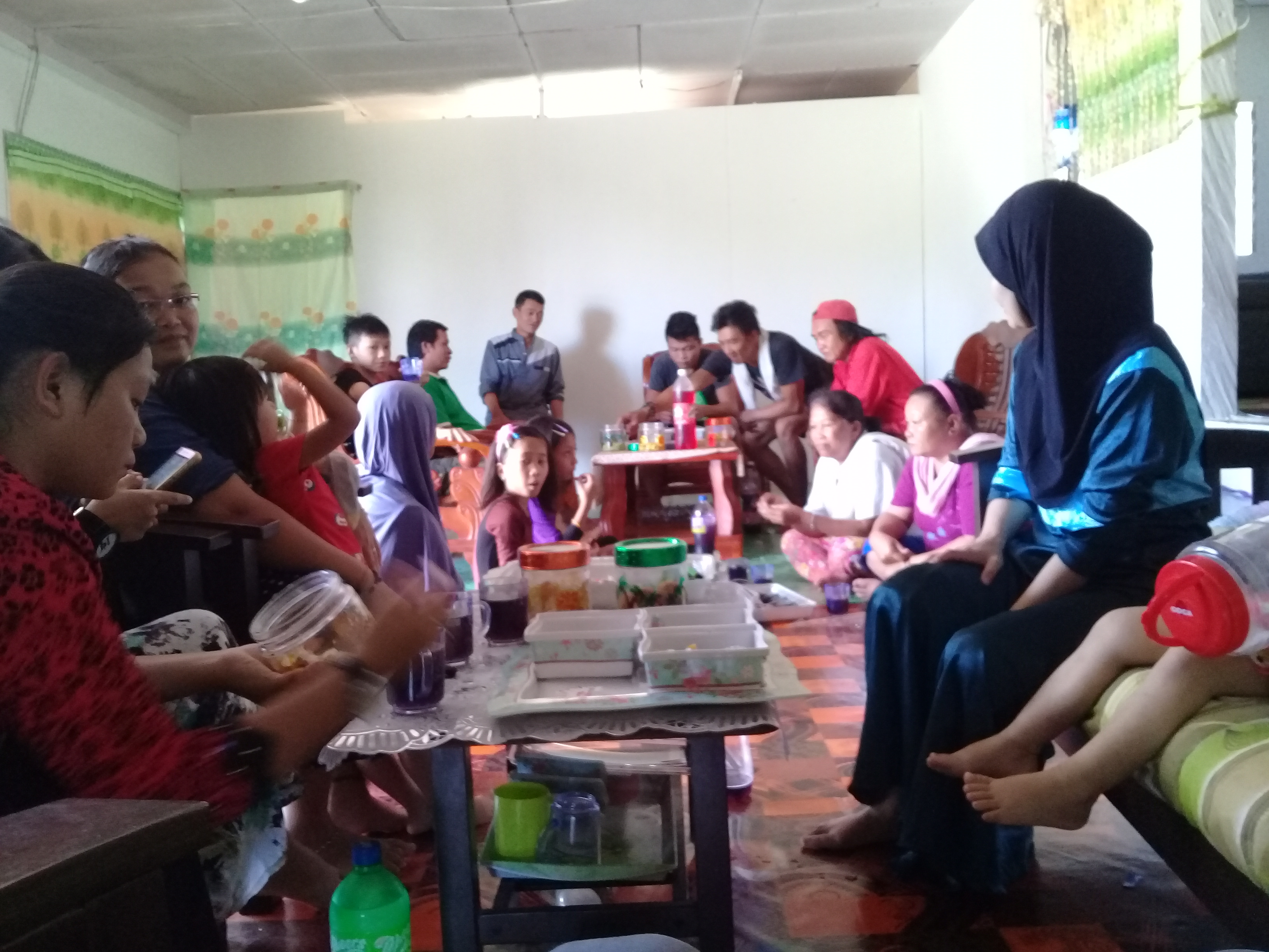 Suku Penan Muslim menyambut Hari Raya Aidilfitri